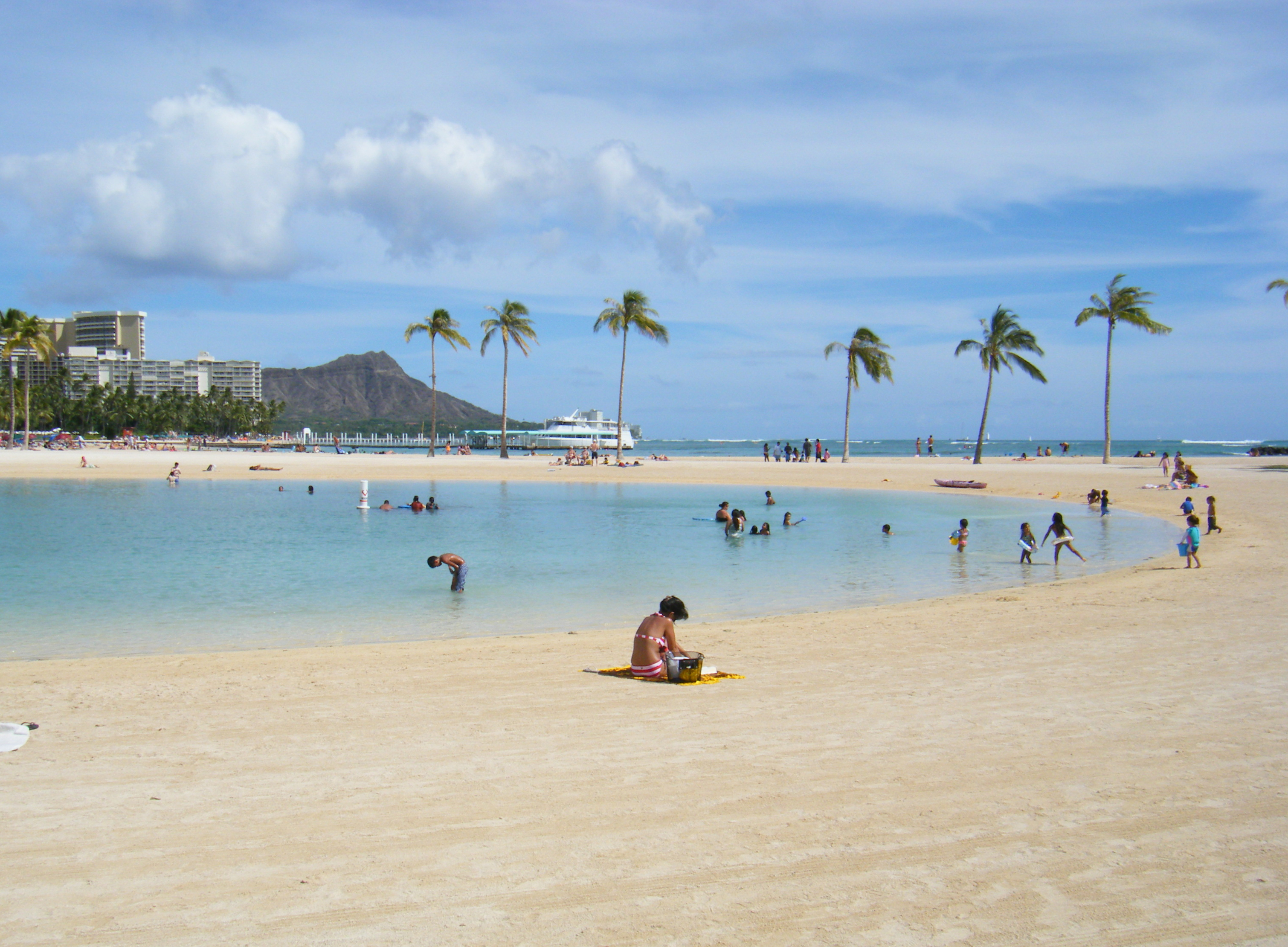 Dukes Lagoon facing East